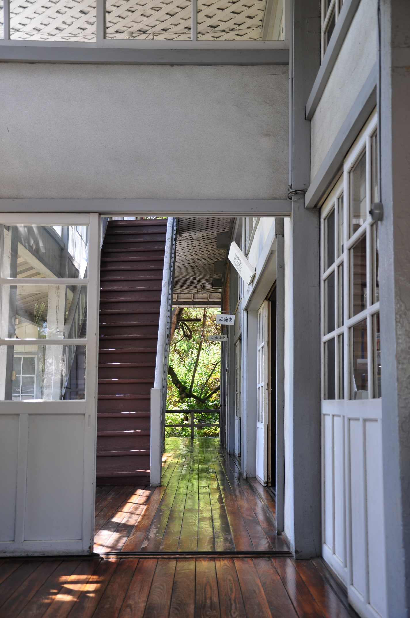 The office section of Tomioka Silk Mill. Vintage corridor.